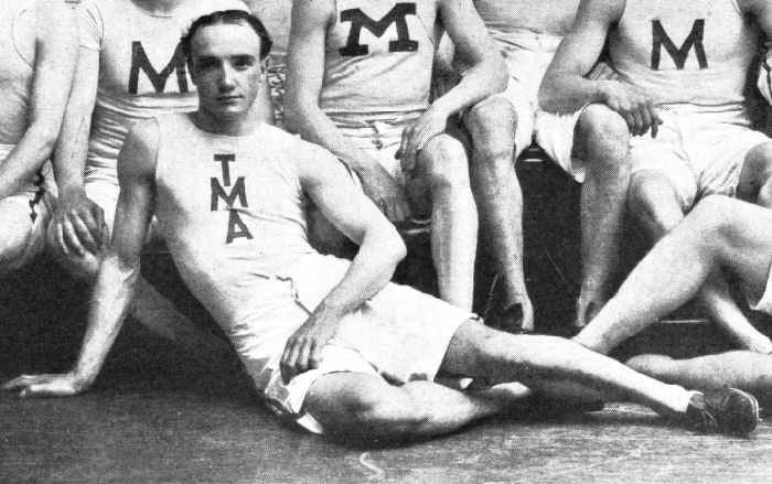 Photograph Clark Leiblee